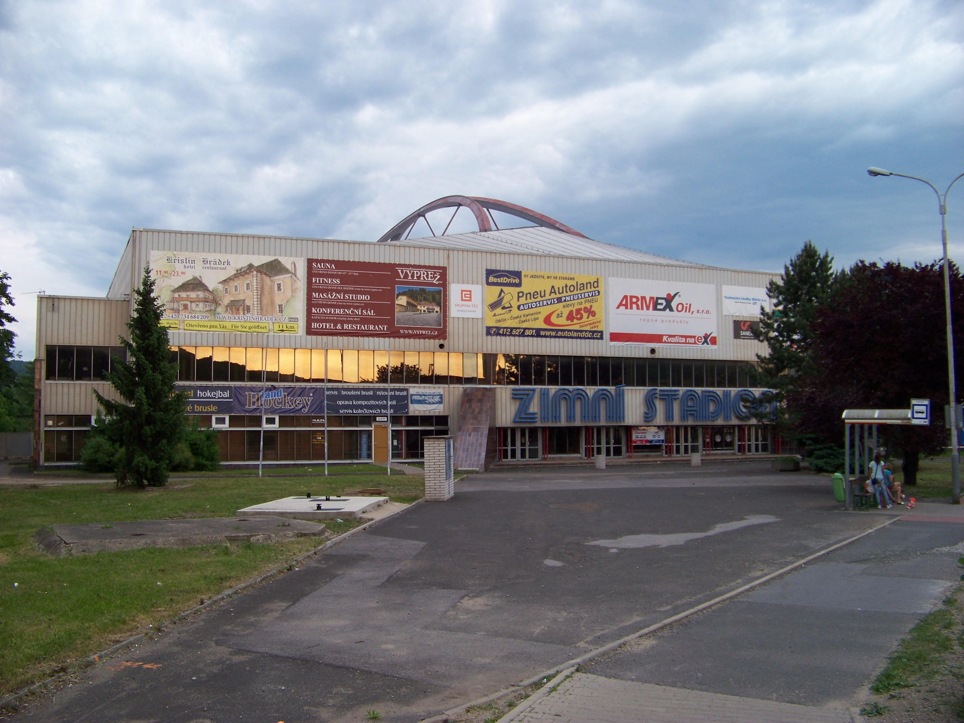 Děčín I-Děčín, Děčín District, Ústí nad Labem Region, the Czech Republic. Oblouková 638/21, the ice hall.